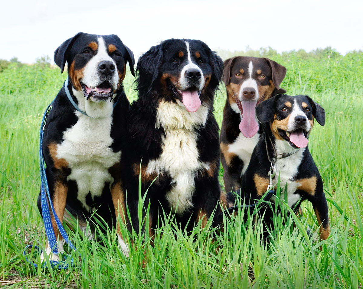 All Mountain Dogs: Greater Swiss Mountain Dog, the Bernese Mountain Dog, the Appenzeller Mountain Dog an the Entlebucher Mountain Dog